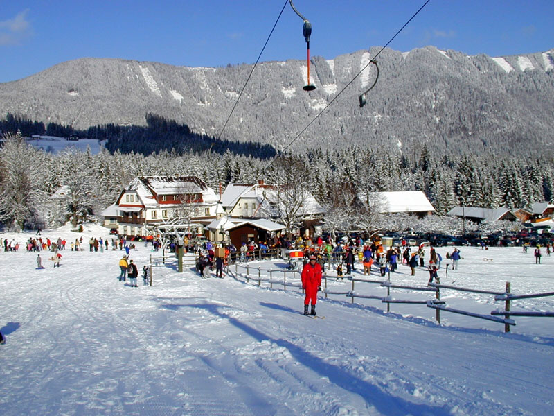 Sking in Bodental Valley in the Karawanken near Ferlach / Carinthia / Austria / EU.